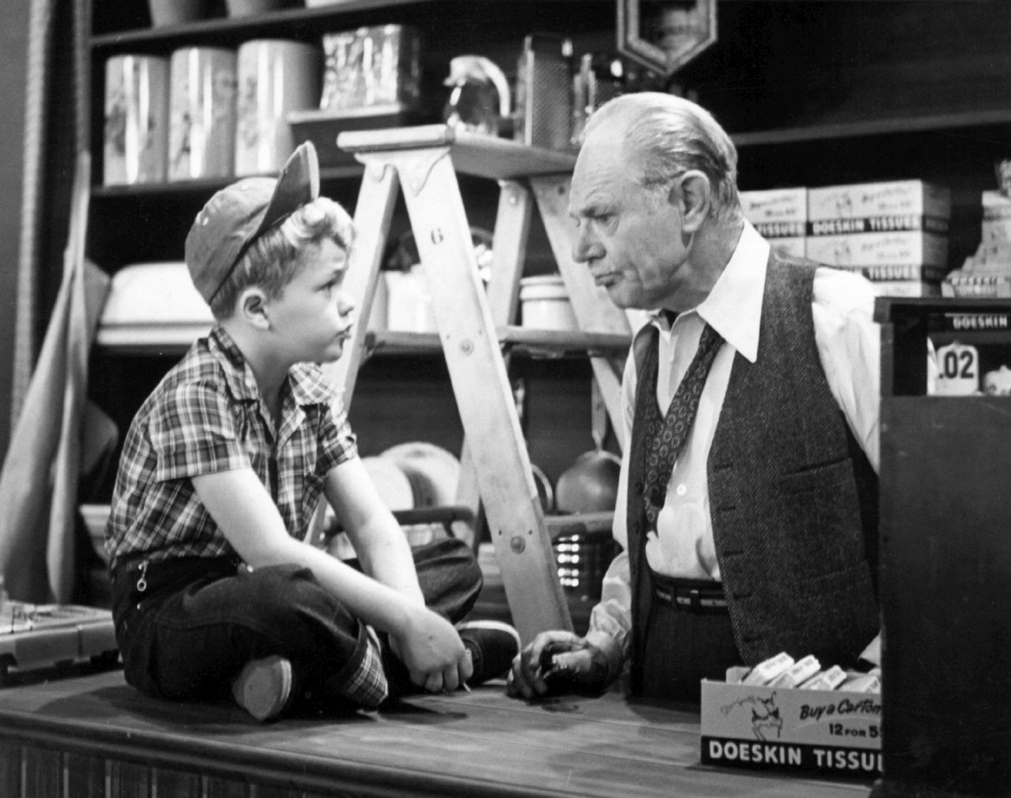 Photo of Charles Ruggles as Cicero P. Sweeney and Glenn Walker as his grandson, Kippy. Ruggles played the owner of a general store in a small town who provided advice along with the merchandise he sold in this comedy. Like the radio program The Aldrich Family, this program also began on Kate Smith's show.